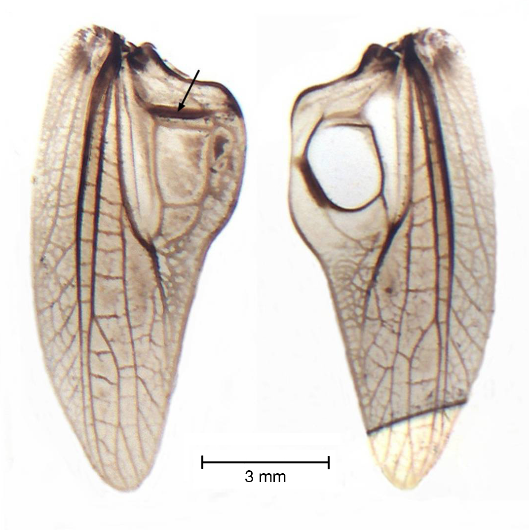 Left an right forewing of an adult male